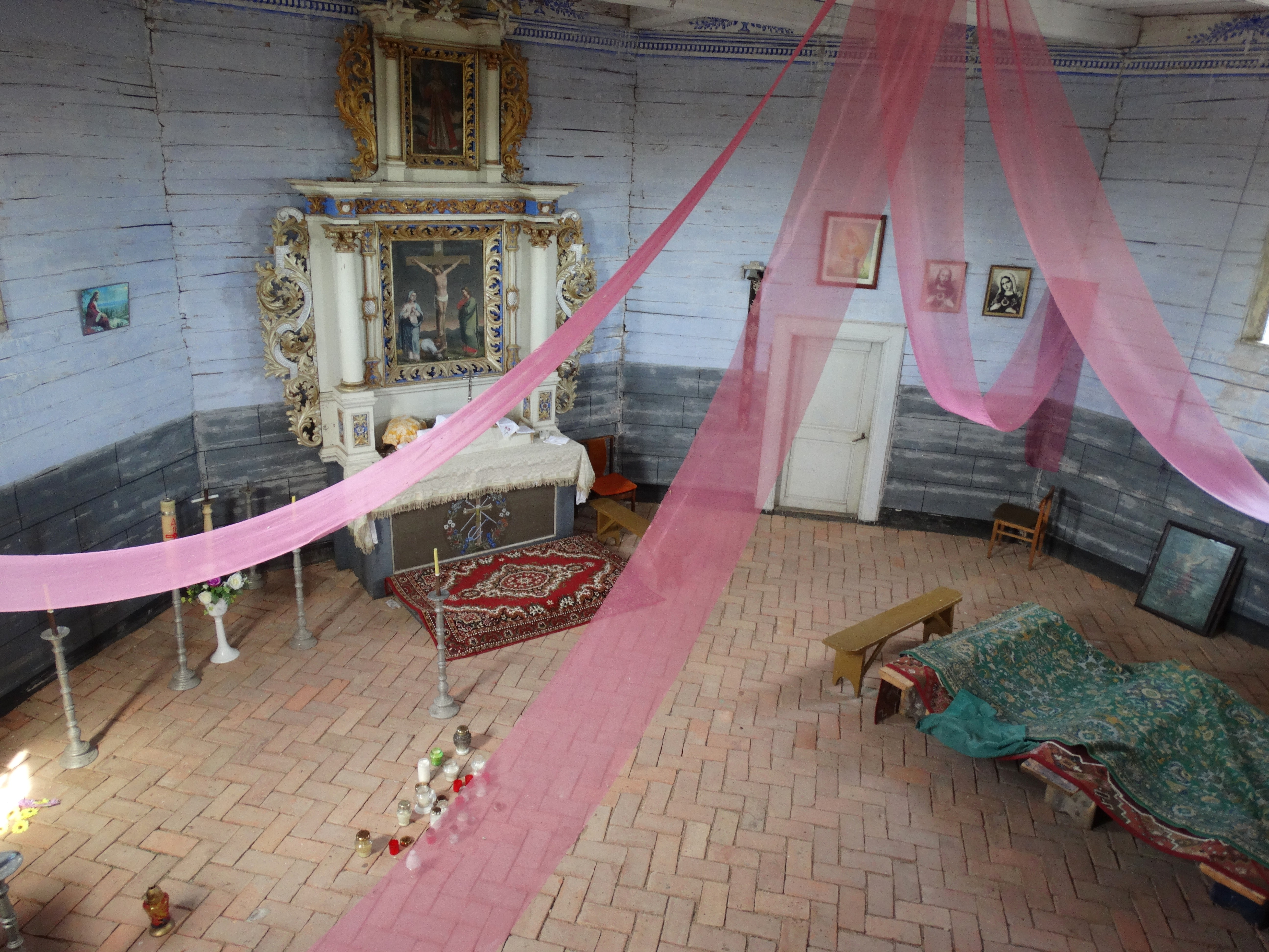 Cemetery chapel, Linkuva, Lithuania